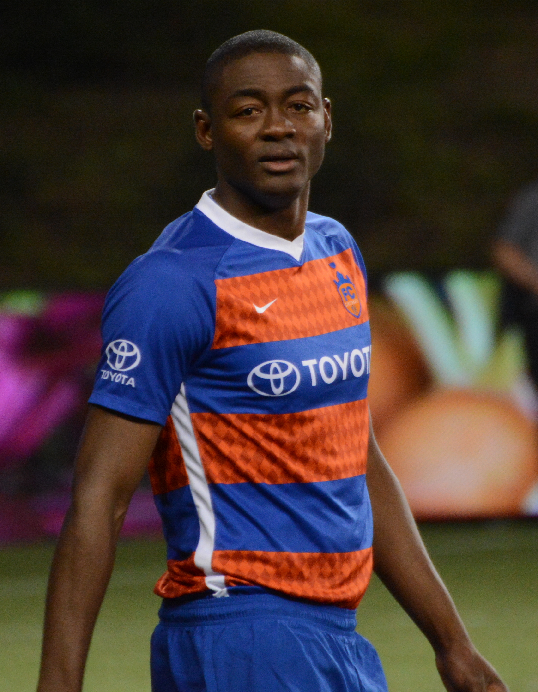 Taken during a USL regular season match between FC Cincinnati and Indy Eleven at Nippert Stadium in Cincinnati, USA on September 29, 2018.